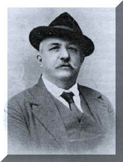 Picture of the Italian poet end composer Arturo Zardini